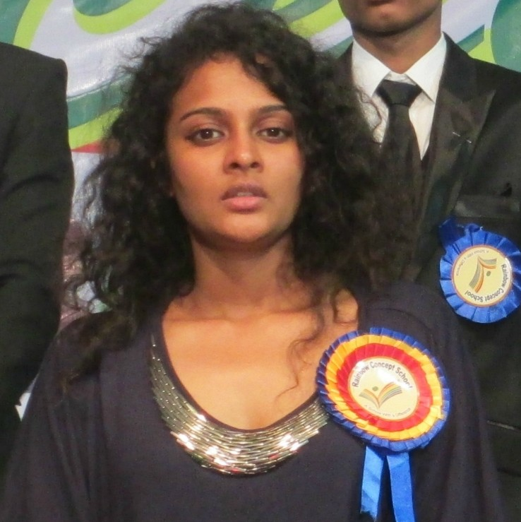 Sonia Deepti (right) with Vithika Sheru (left) in the 9th Annual Day celebrations of Rainbow Concept School, Mahabubnagar, Telangana State.